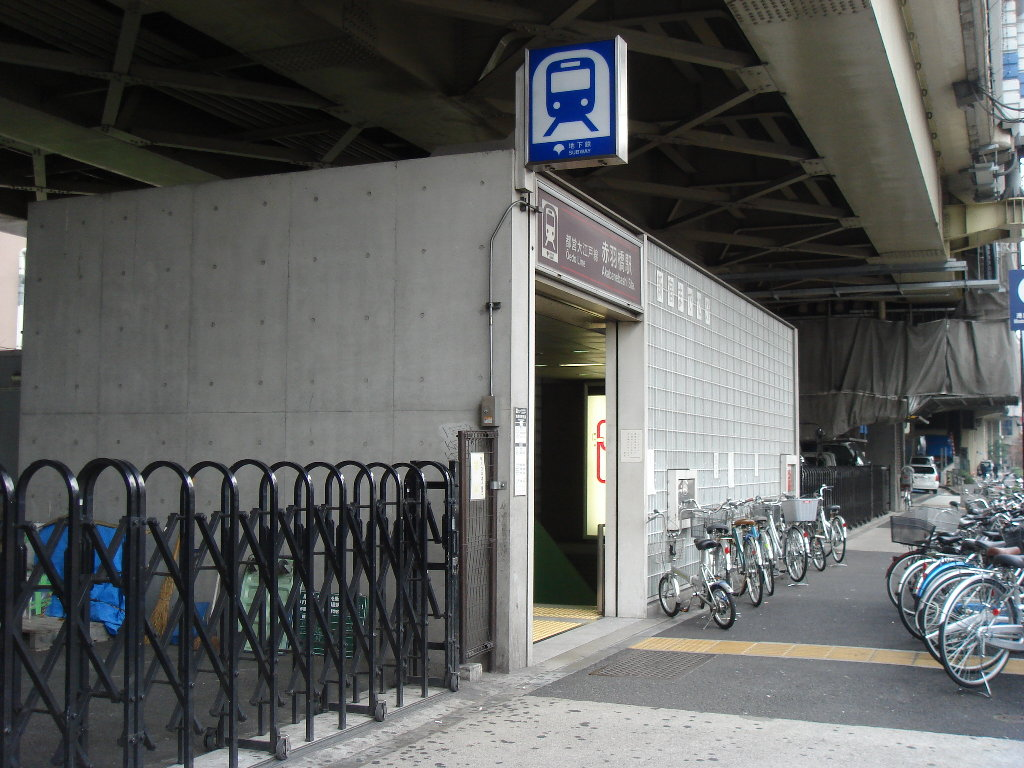 Akabanebashi Exit of Akabanebashi Station, Toei Ōedo Line